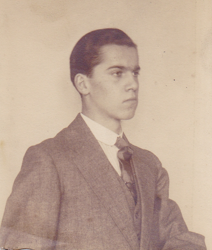 A portrait of Frederick Clifford Dixon, print maker and art teacher.